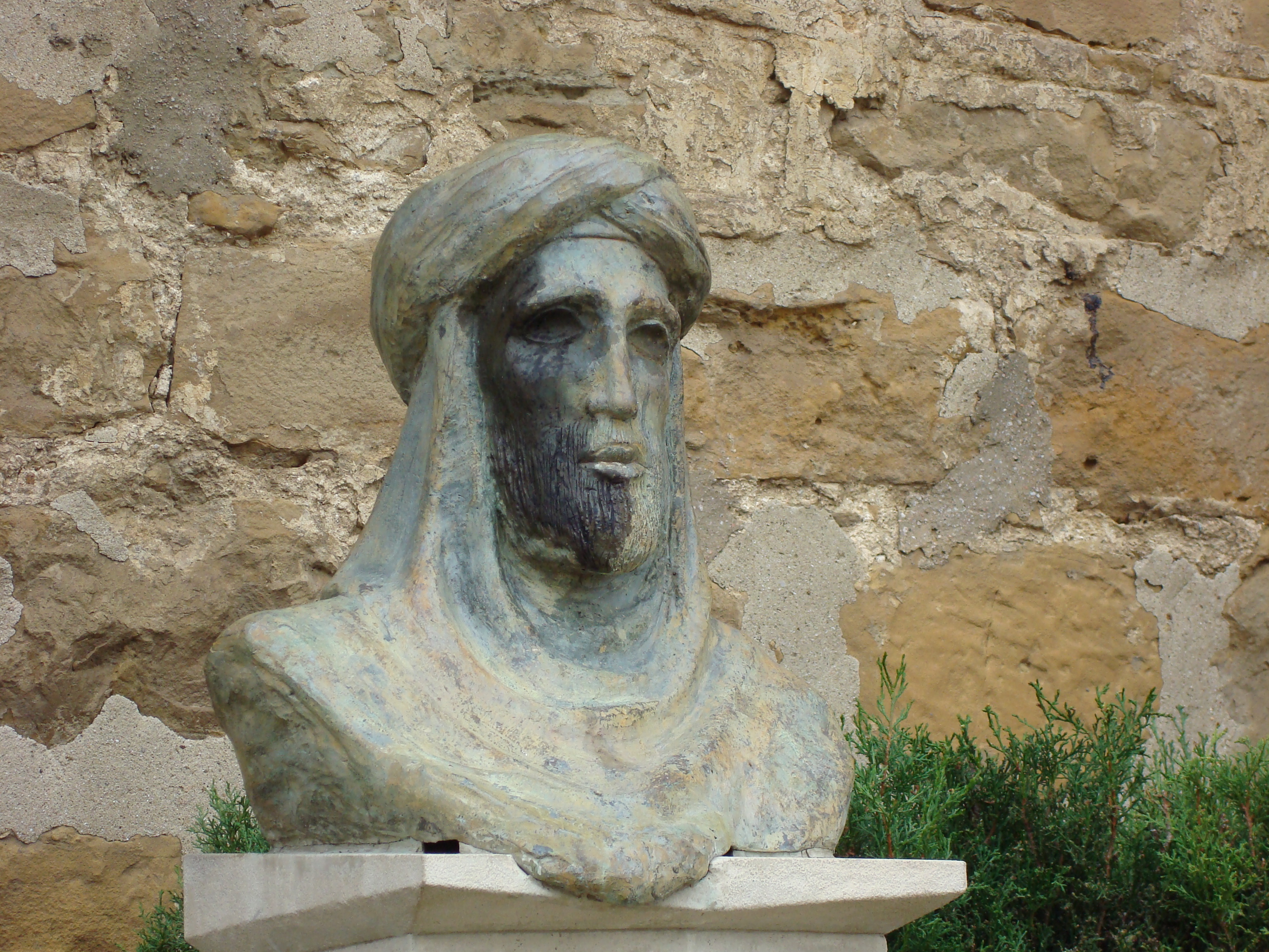 A bust statue in Arjona. It is the statue of Muhammad I of Granada (Muhammad ibn Yusuf ibn Nasr Alhamar) according to: Arjona. El legado andalusí (The Legacy of Al-Andalus), a public foundation of the Andalusia regional government.